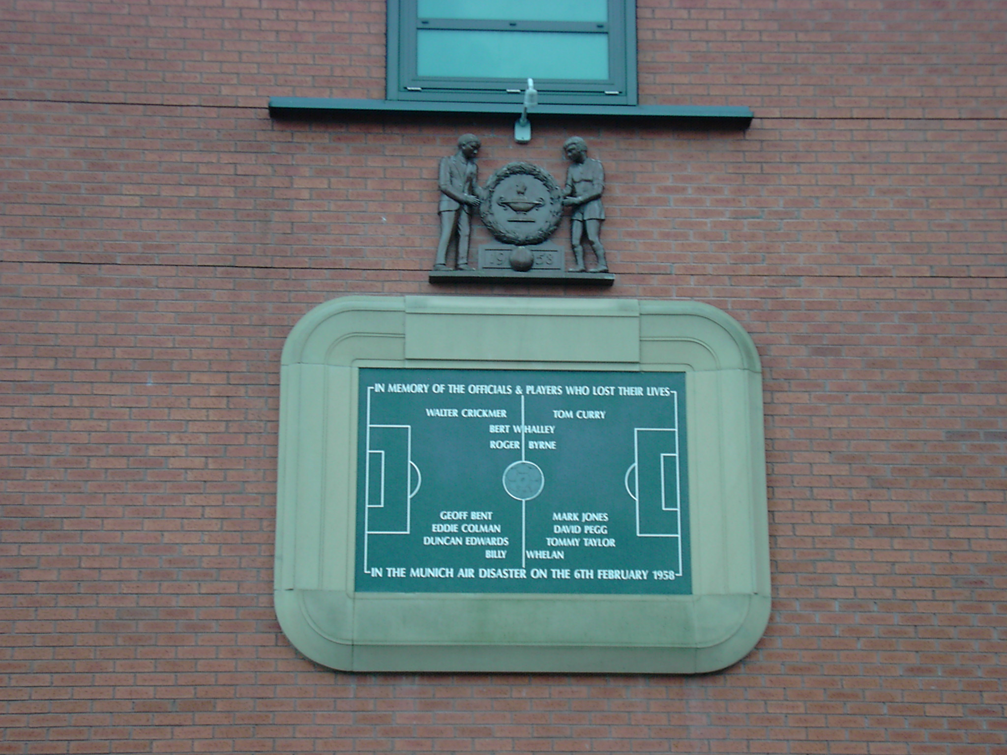 A plaque commemorating the Munich air disaster at Old Trafford Football Ground, Manchester